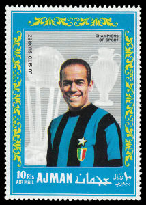 A 1968 Ajman stamp commemorating Inter Milan player Luisito Suárez.